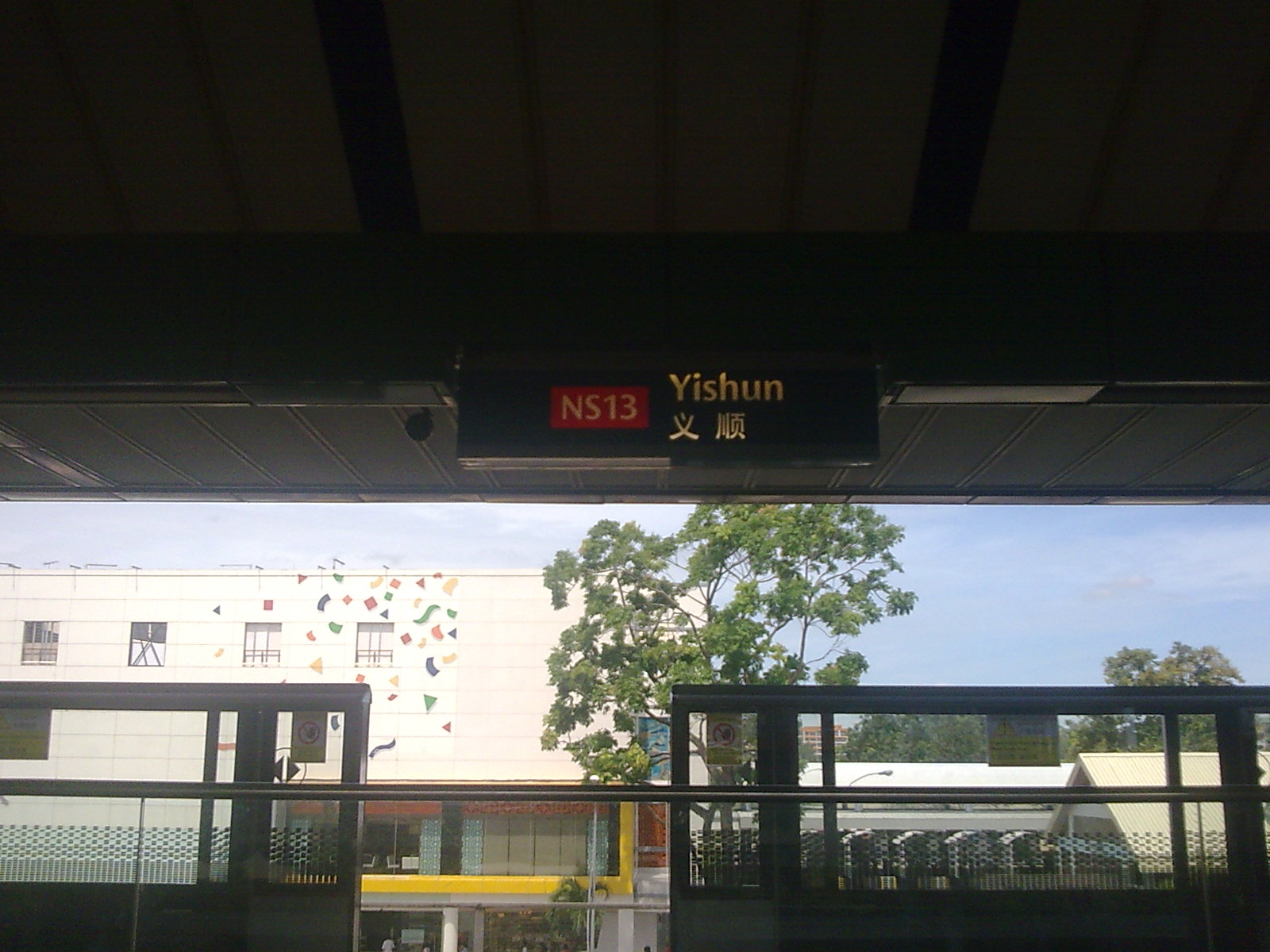 Half height PSDs in Yishun MRT station.